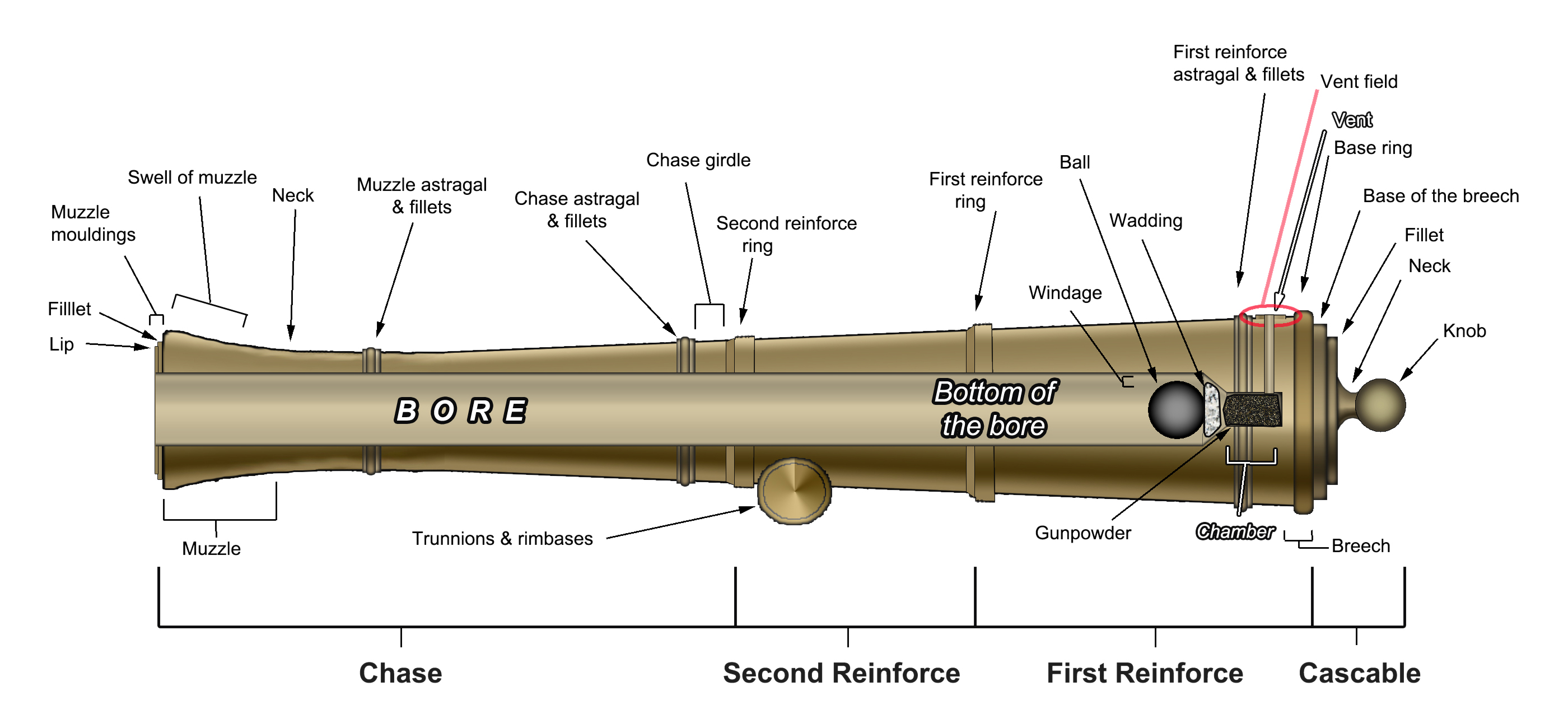 A diagram of a mid 19th century muzzle-loading cannon.